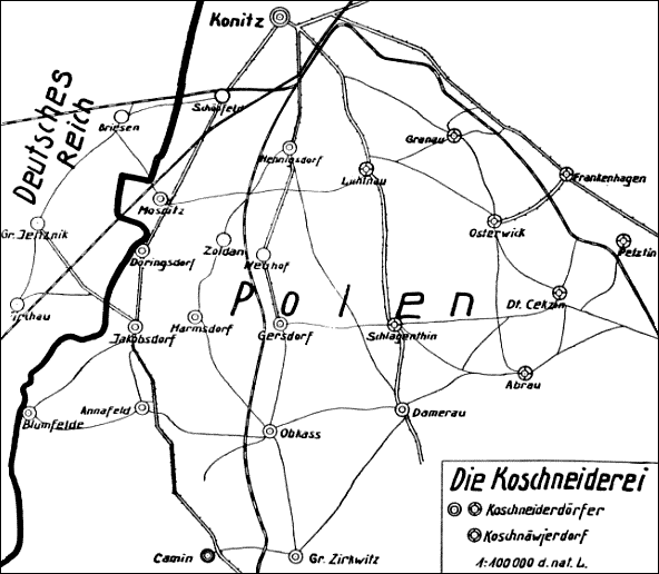 Map of the Kosznajderia in Poland (Second Polish Republic) by Dr. Joseph Rink (1926)